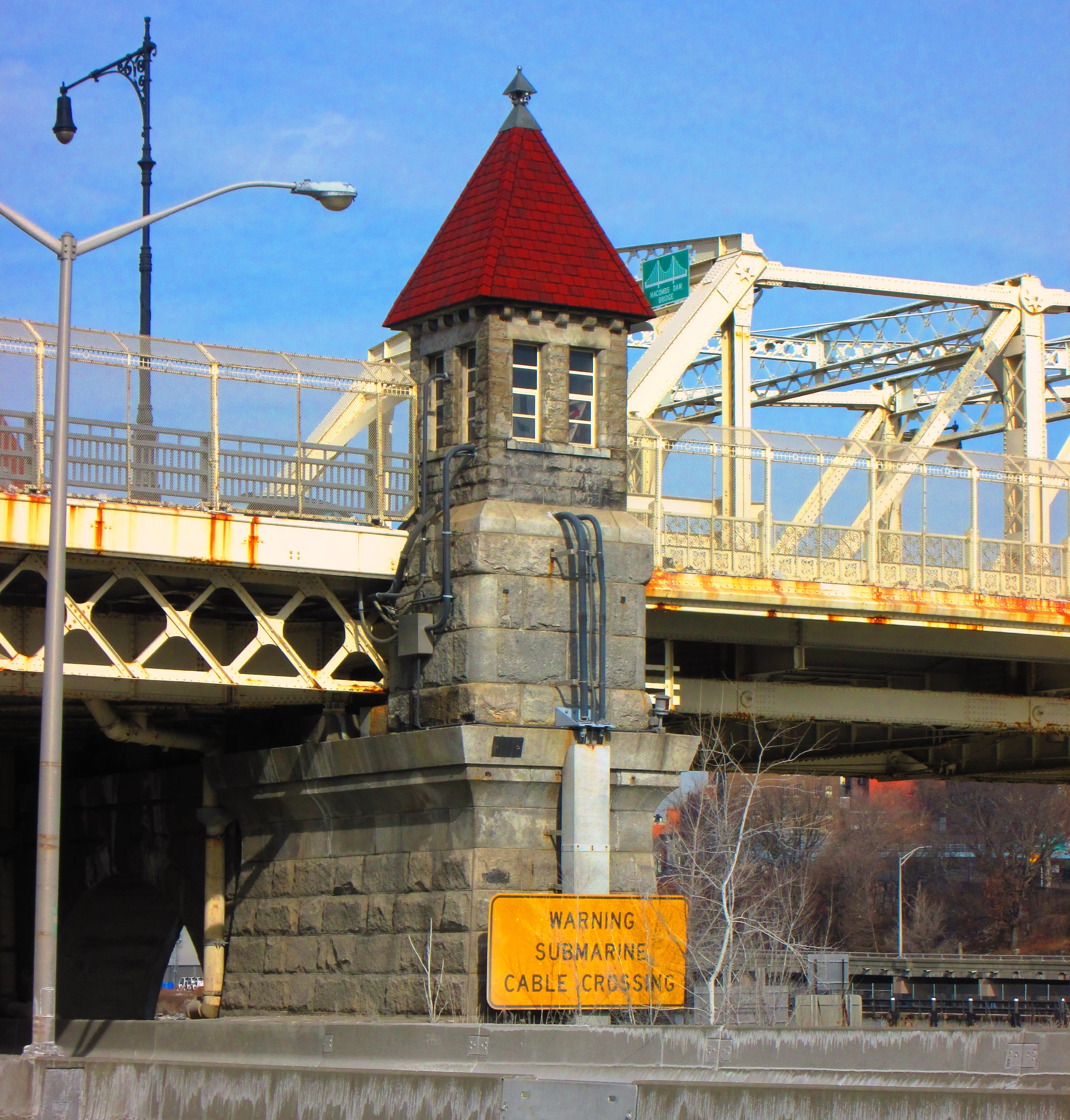 The Macombs Dam Bridge is a swing bridge that spans the Harlem River in New York City, connecting the boroughs of Manhattan and the Bronx near Yankee Stadium. Built in 1890-95 and designed by consulting engineer Alfred Pancoast Boller, it is the third-oldest bridge in New York City.